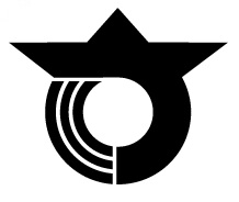 Sakawa Kochi chapter